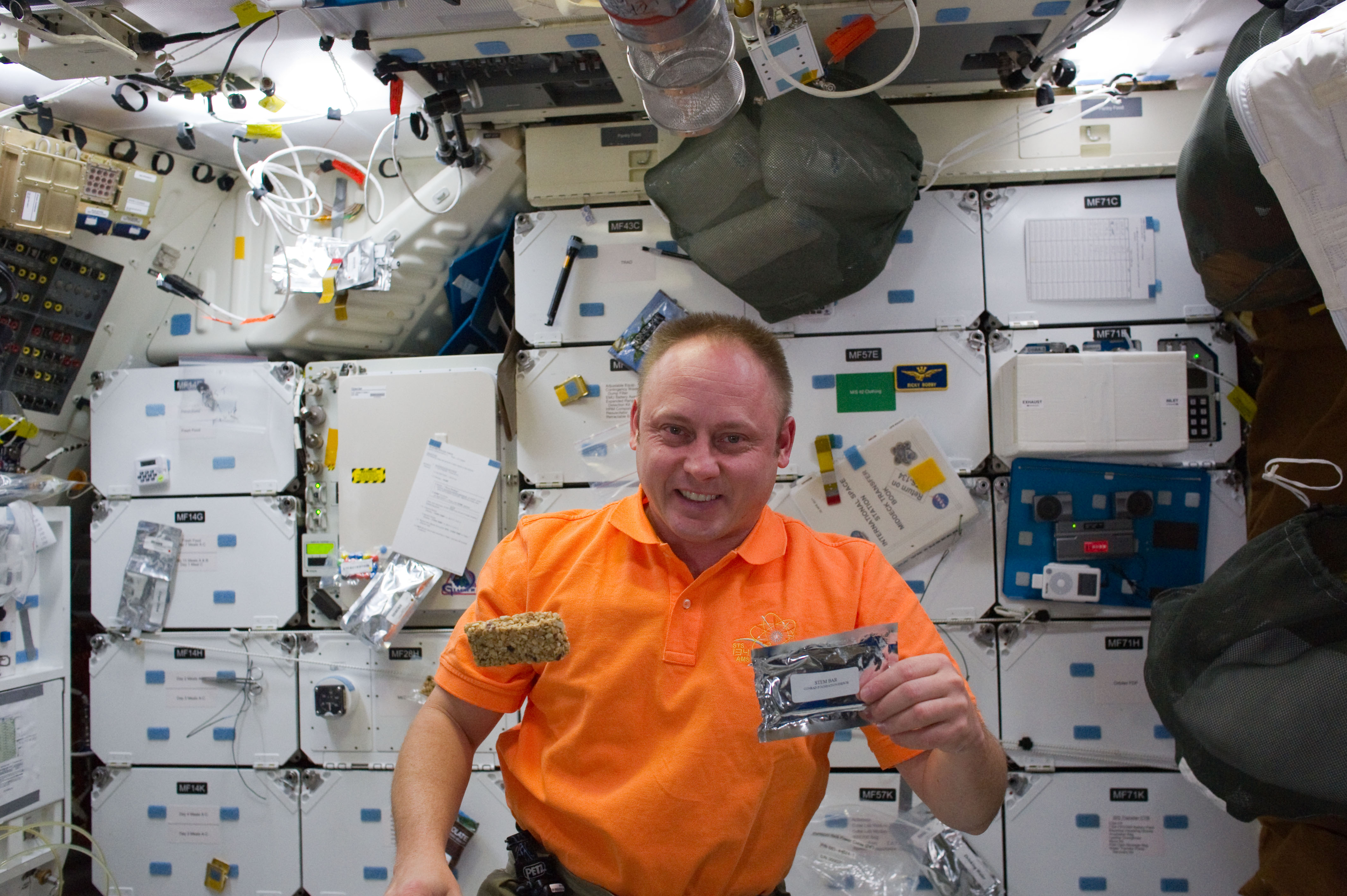 NASA astronaut Michael Fincke, STS-134 mission specialist, prepares to eat a snack on the middeck of space shuttle Endeavour while docked with the International Space Station during flight day 13.